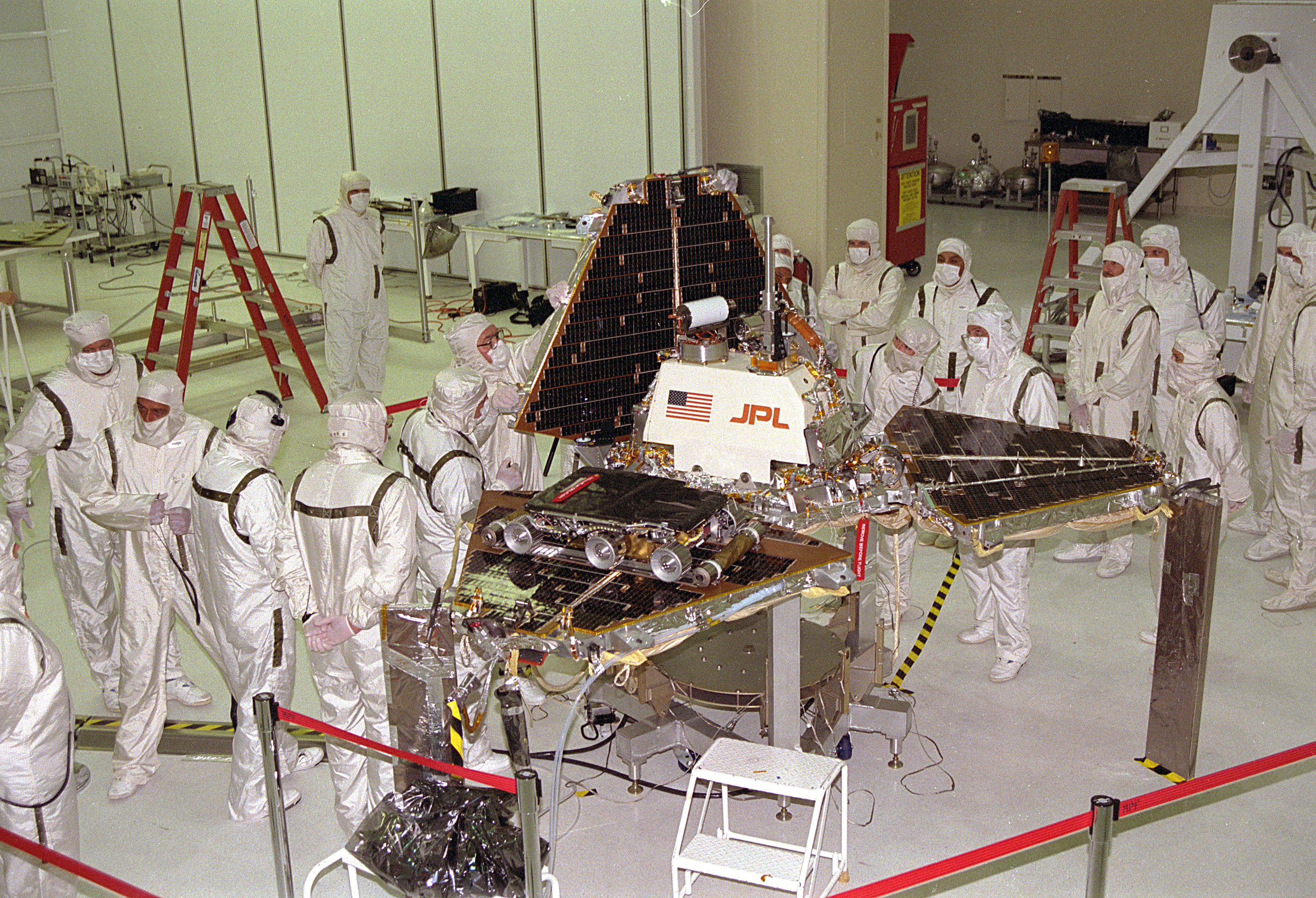 In Spacecraft Assembly and Encapsulation Facility-2 (SAEF-2), Jet Propulsion Laboratory workers are closing up the metal "petals" of the Mars Pathfinder lander. The Sojourner small rover is visible on one of the three petals.